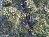 Juniper.